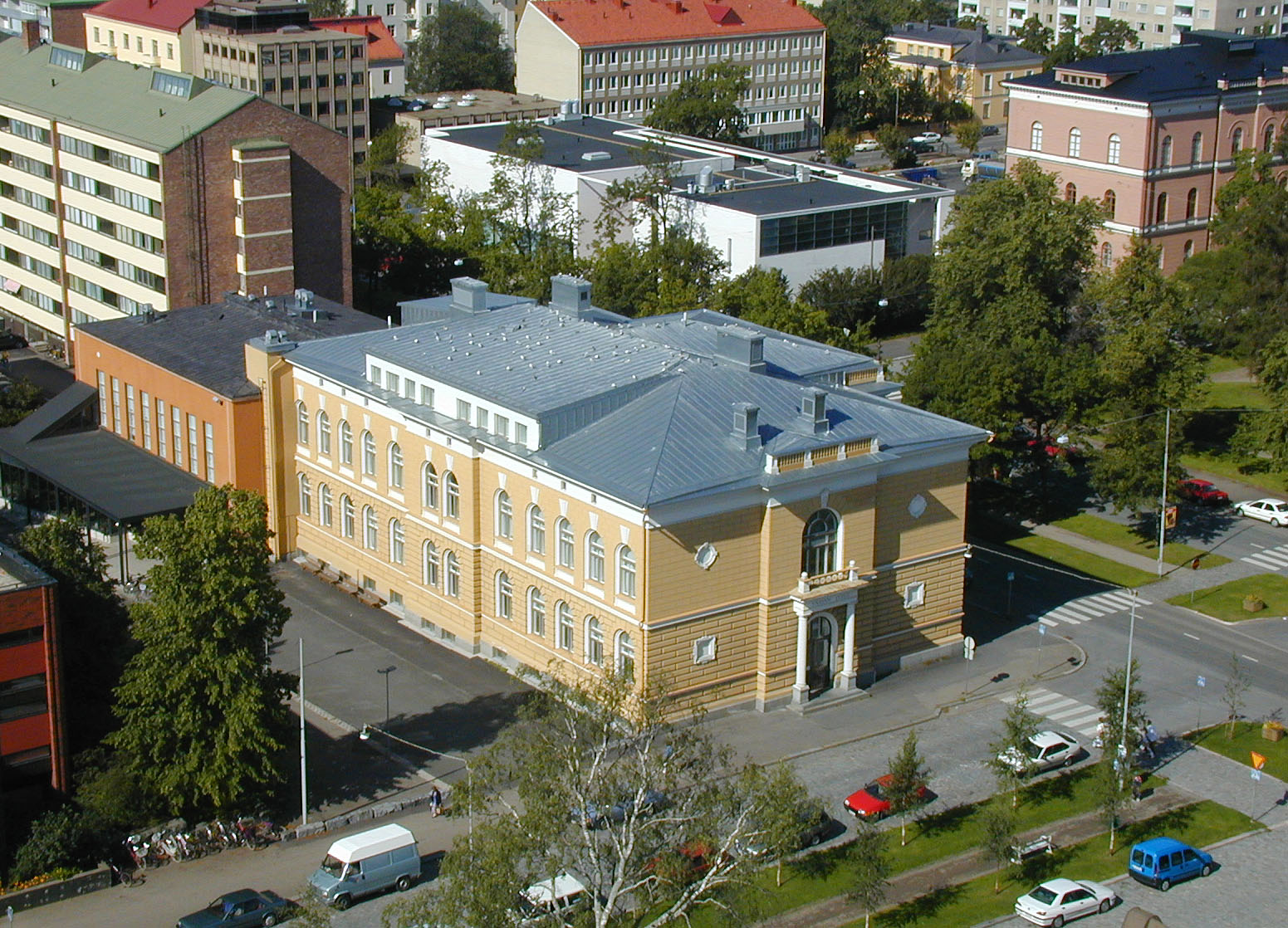 School in Vaasa, Finland. The building was designed by architect Jacob Ahrenberg and completed in 1898.